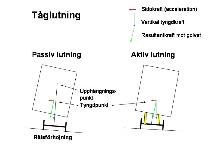 Tilting train forces